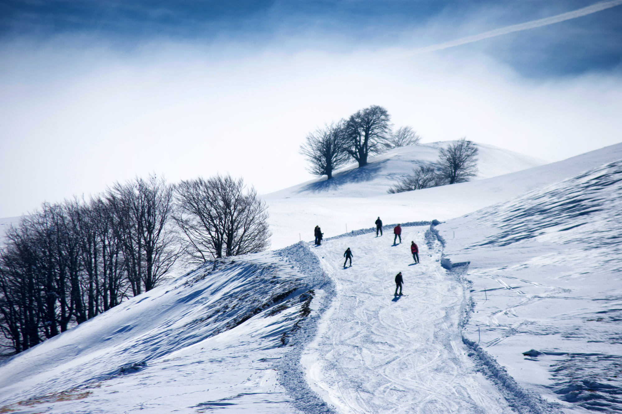 This is a photography of Natura 2000 protected area with ID GR2130006